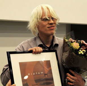 Frode eika sandnes receives Oslo University College's research award for 2010 for outstanding research